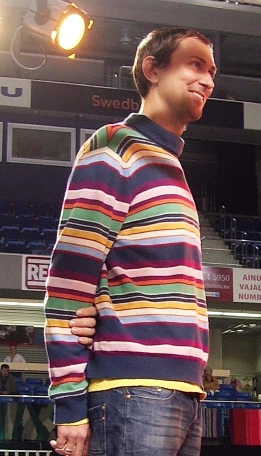 Aldo Järvsoo (born 1976) is a fashion designer from Estonia.